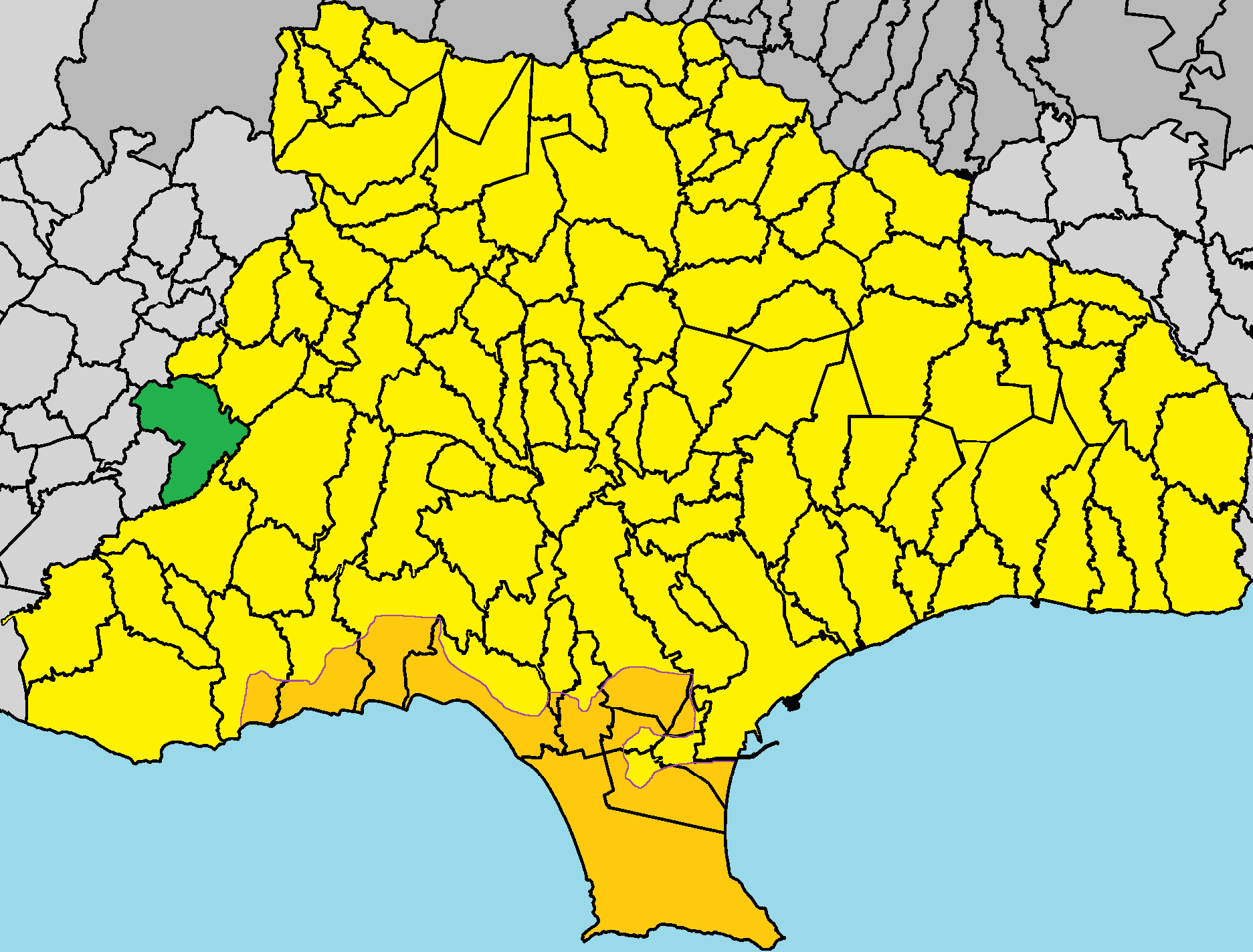 Dora, Cyprus in Limassol District.